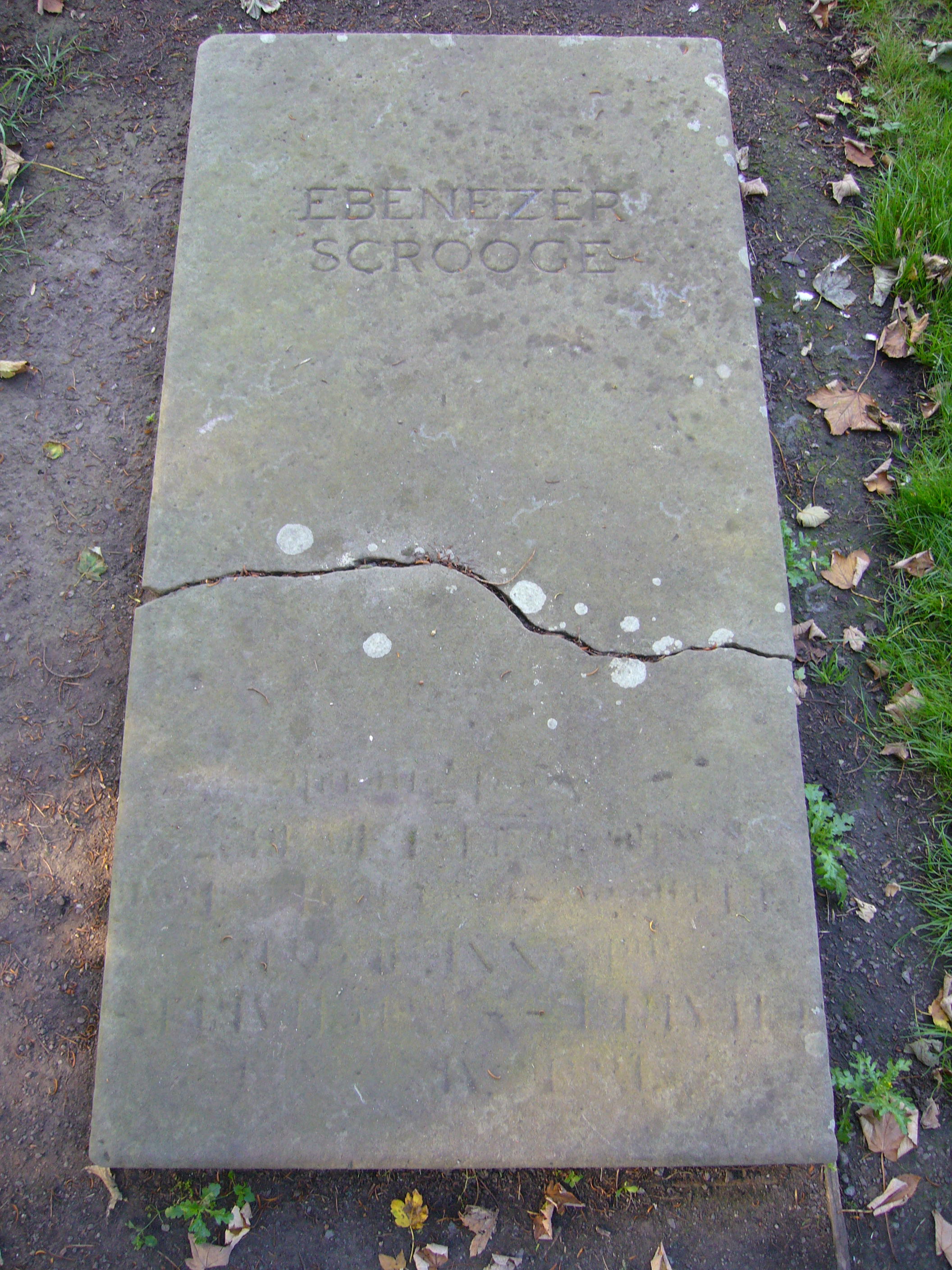 Replica tombstone from the 1984 film version of "A Christmas Carol", still in situ in St.Chad's churchyard, Shrewsbury, England in 2008